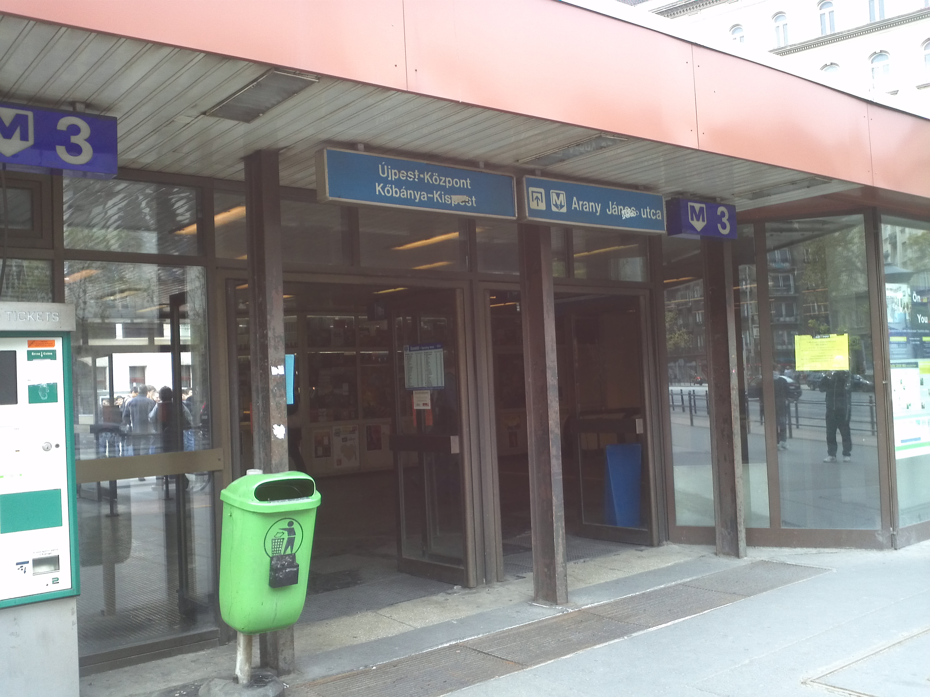 Outside of the station Arany János utca, on Budapest Metro system.